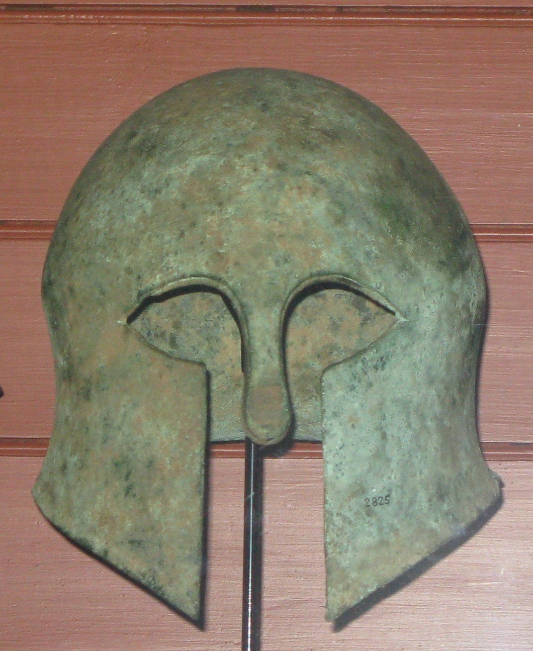 Photo of a Etruscan helmet in the british museum